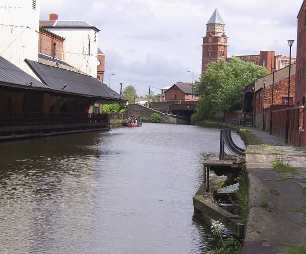 shows the reconstructed "pier" on the right hand side - a loading bay for coal using a narrow gauge railway.